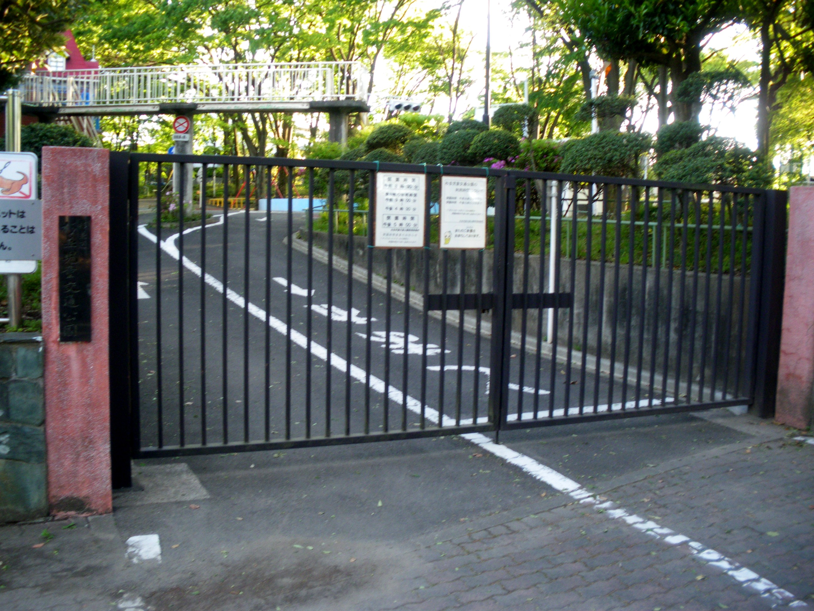 Suginami Traffic Playground(Naritanishi,Suginami,Tokyo)